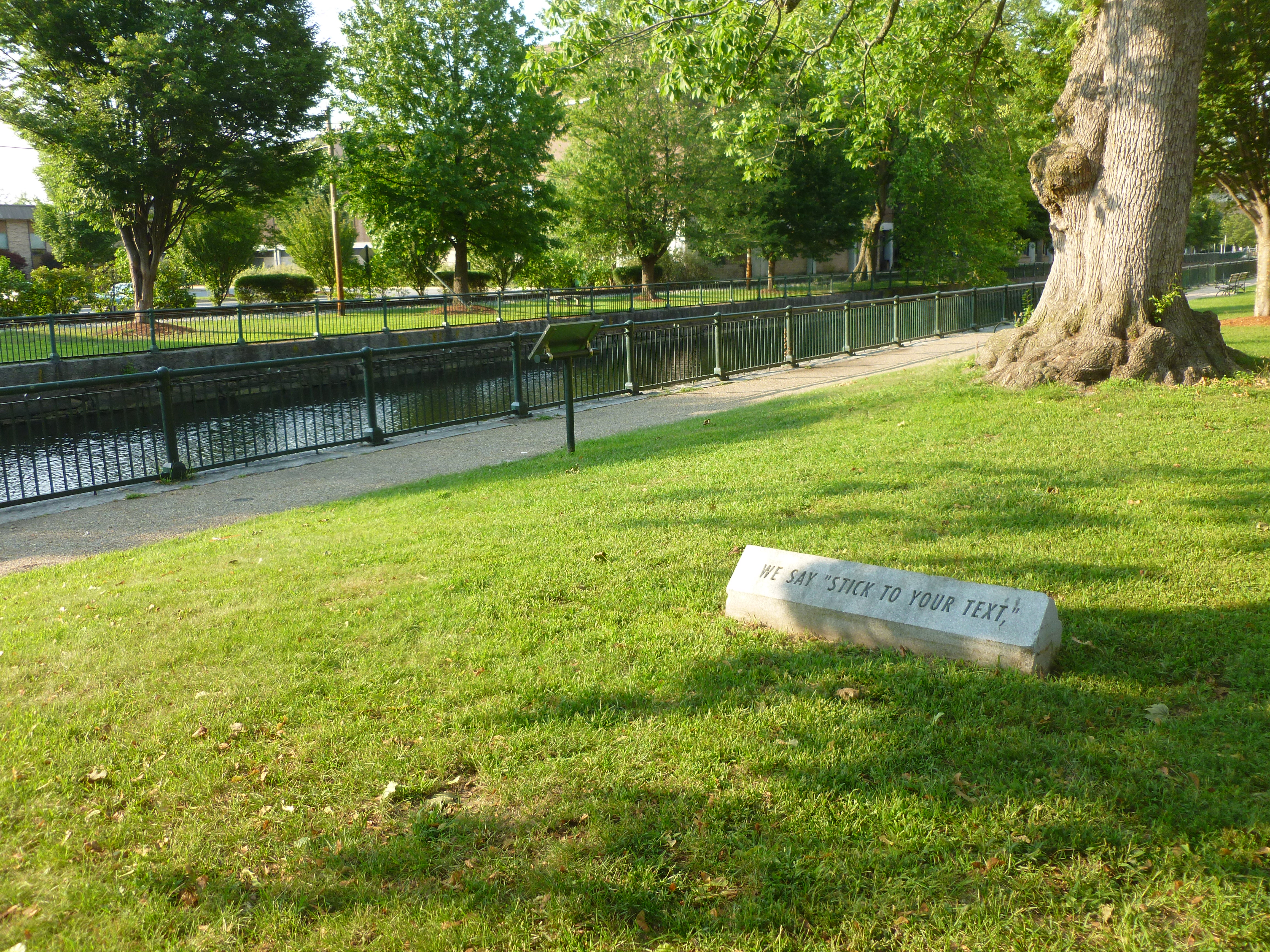 A stone panel reading "WE SAY 'STICK TO YOUR TEXT'". Located in Lucy Larcom Park, part of the Lowell National Historical Park, near Merrimack Street in Lowell, Massachusetts.